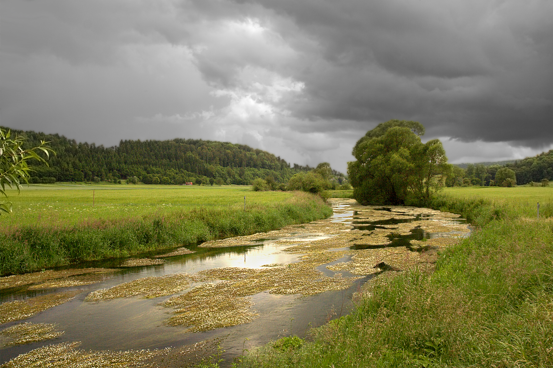 Wide river plain of the meandering (eutrophic) Lauchert S of Veringenstadt Swabian Alb.In the 1,8 x 0,5km valley about 15m of now mainly cemented travertine (tufa